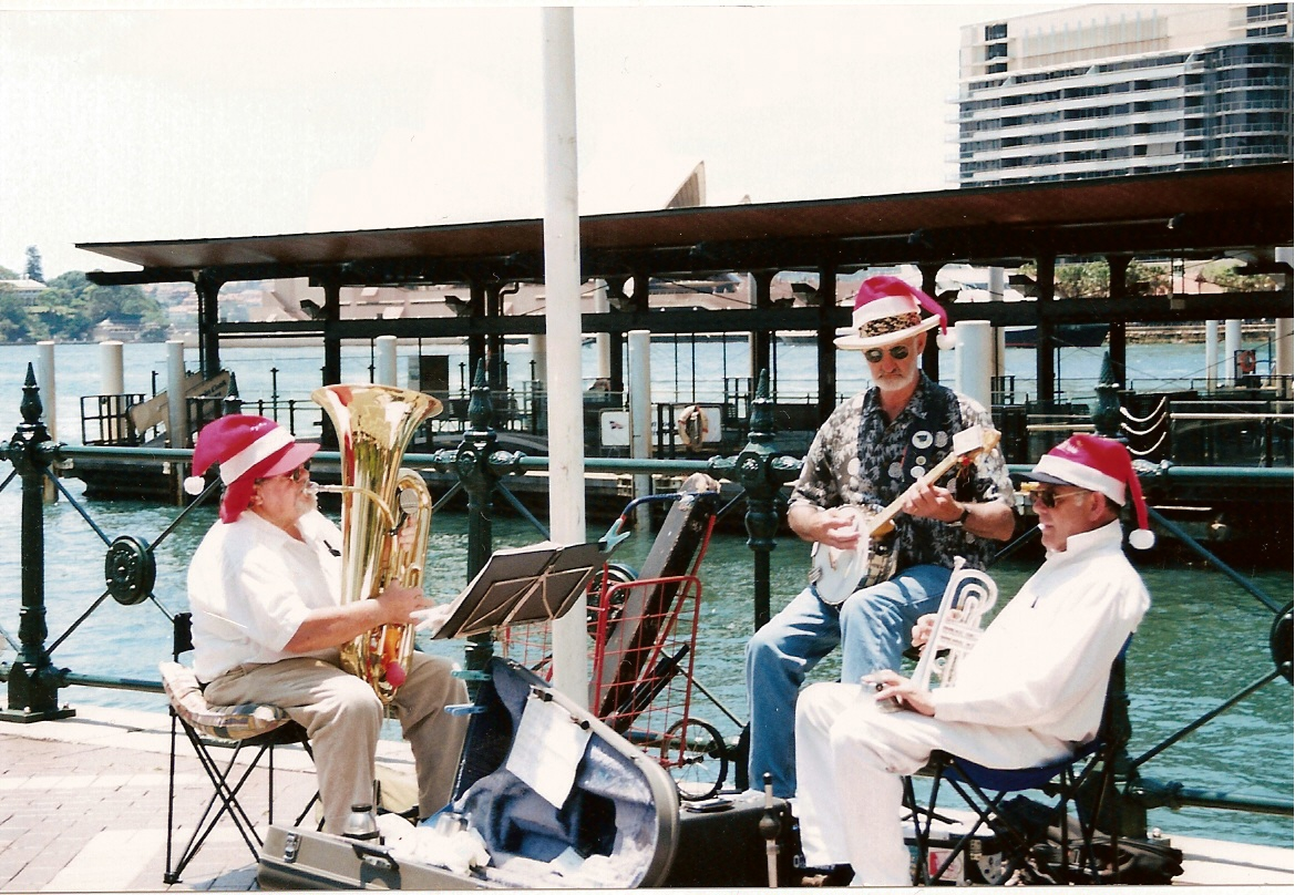 Musicians on Sydney Harbour during 2001 Xmas holidays.